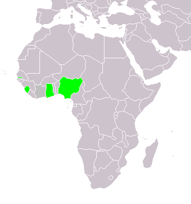 Map of British West Africa — the 19th and 20th century colonies of British West Africa.